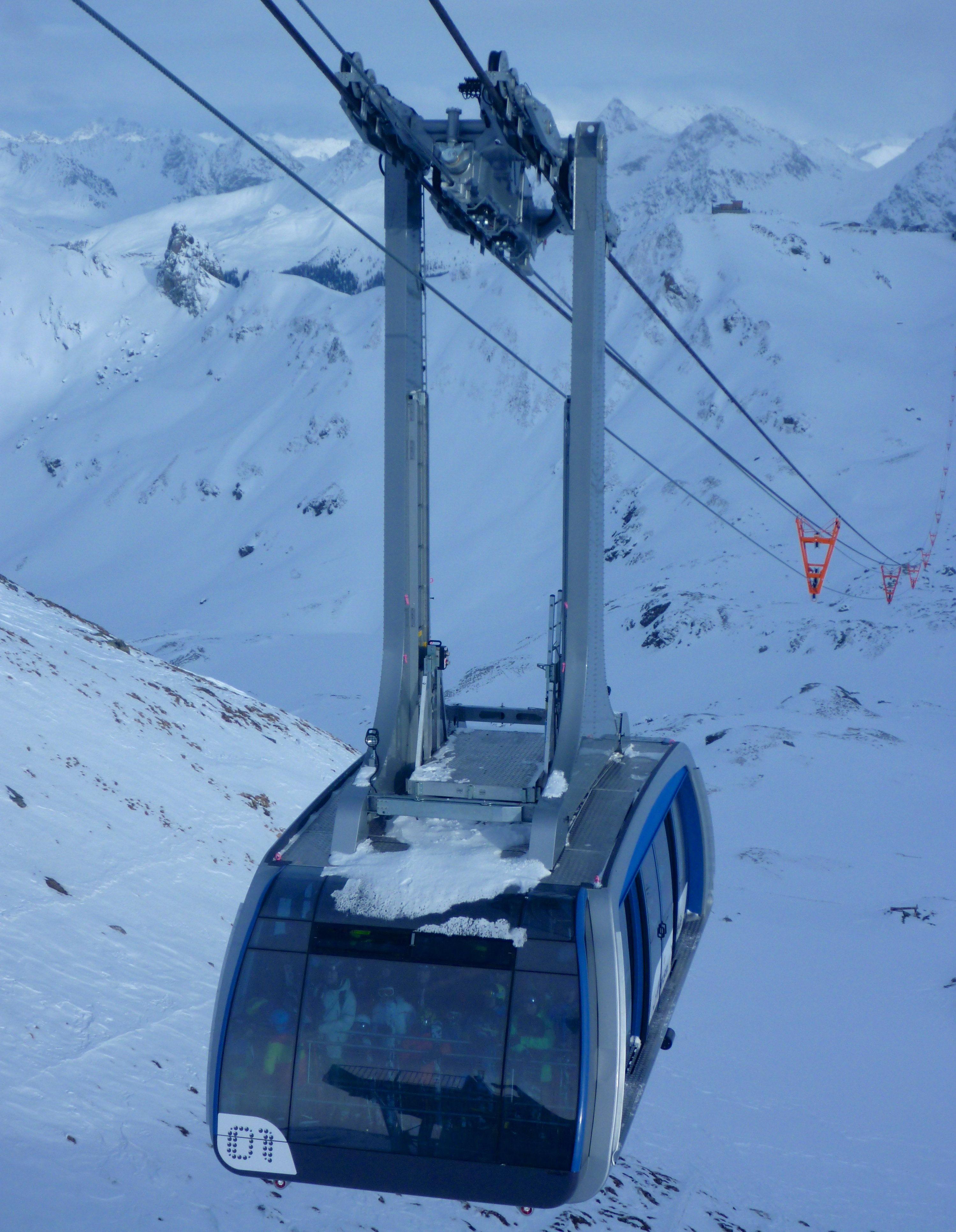 Gondola of Aerial Lift "Urdenbahn" between Arosa and Lenzerheide/Switzerland